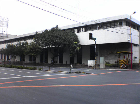 Mapua IT Center, taken by camera phone at Buendia Ave.